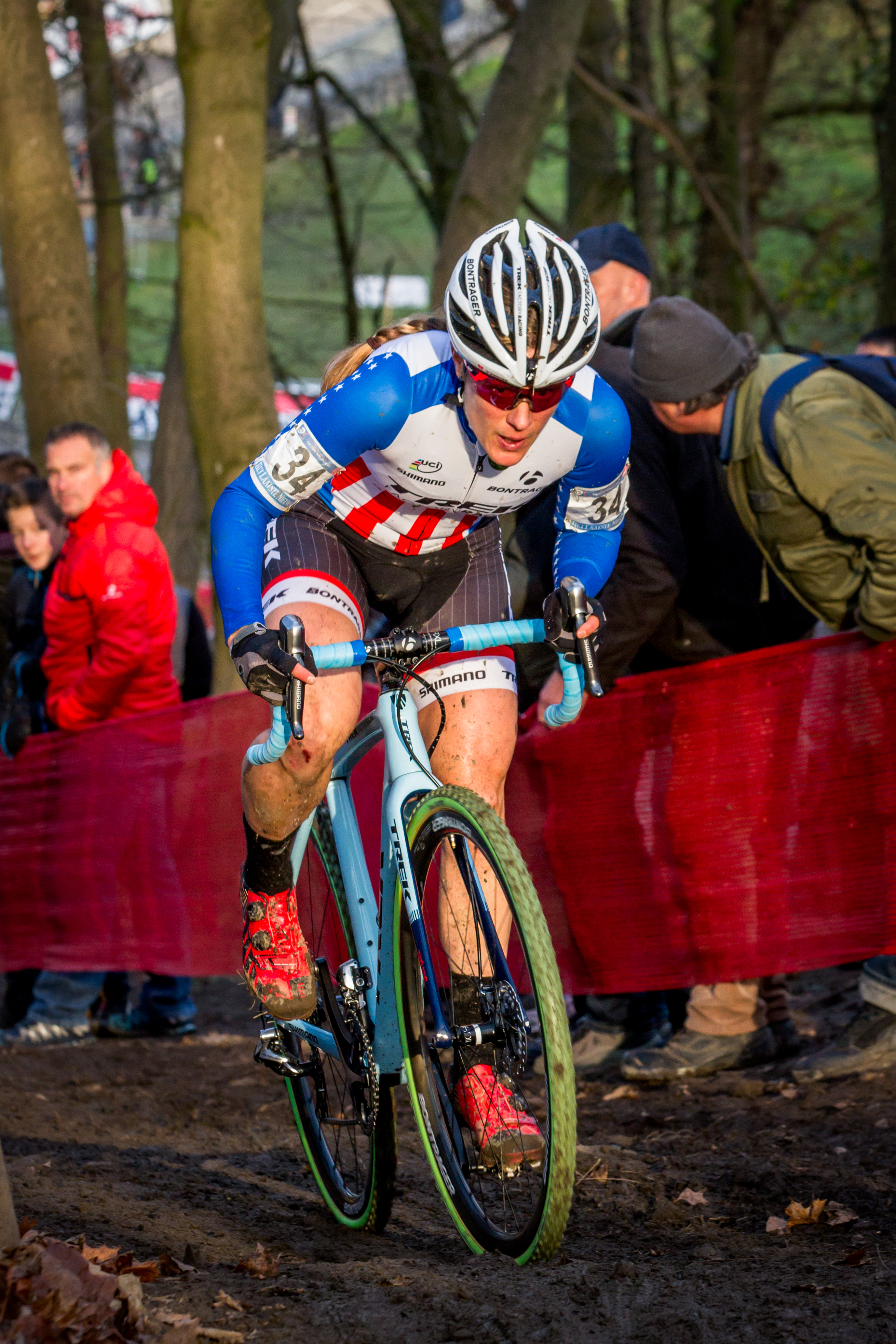 Katie Compton, U.S.A. national champion, of Trek Factory Racing. UCI Cyclocross World Cup, Namur, 2015.